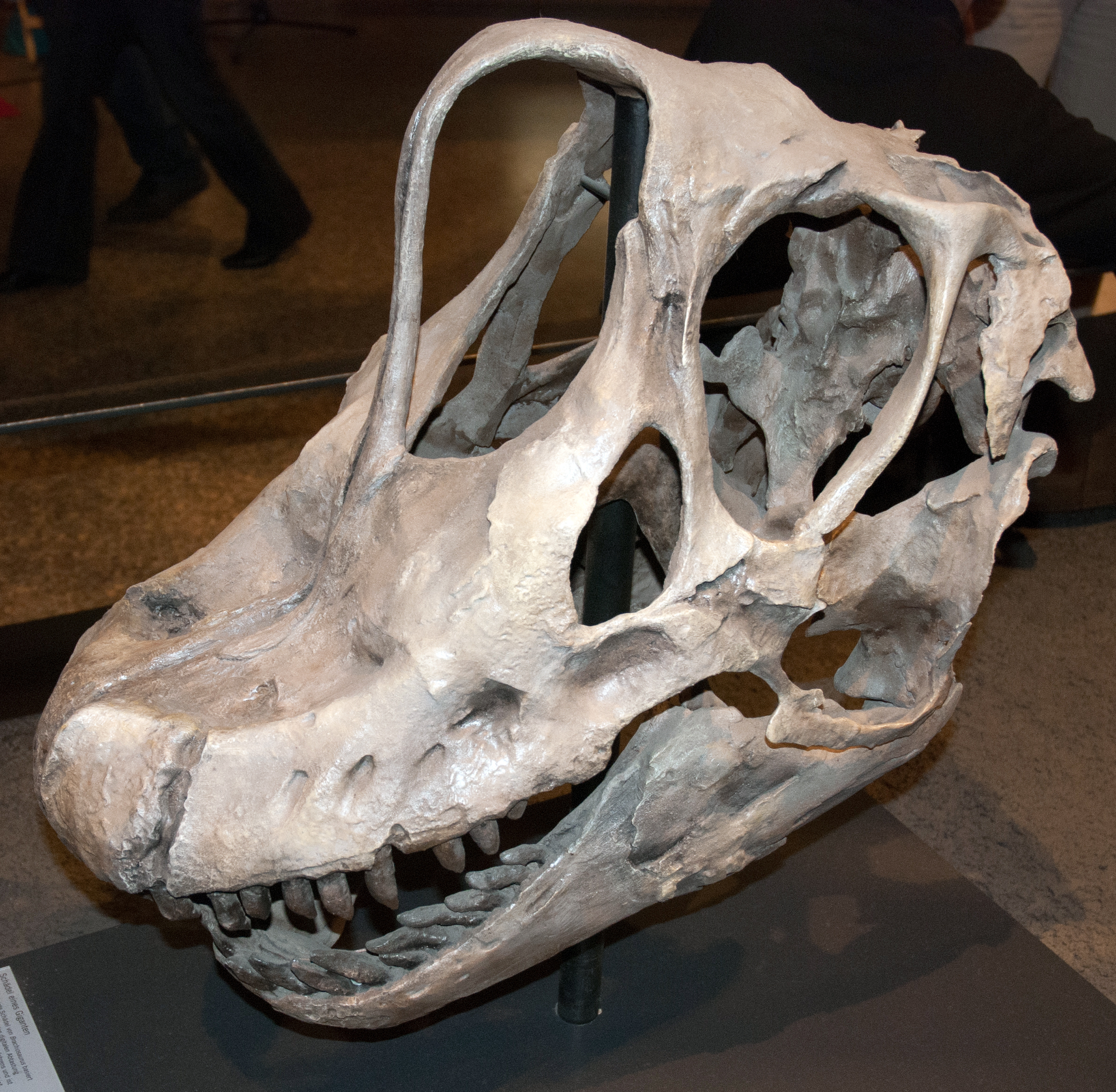 Berlin 2010